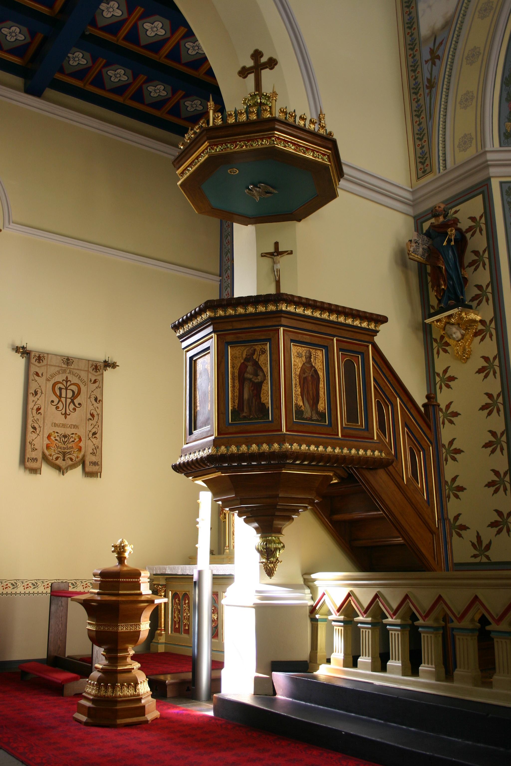 Pulpit and baptismal font of "St. Marien am Behnitz" in Berlin-Spandau